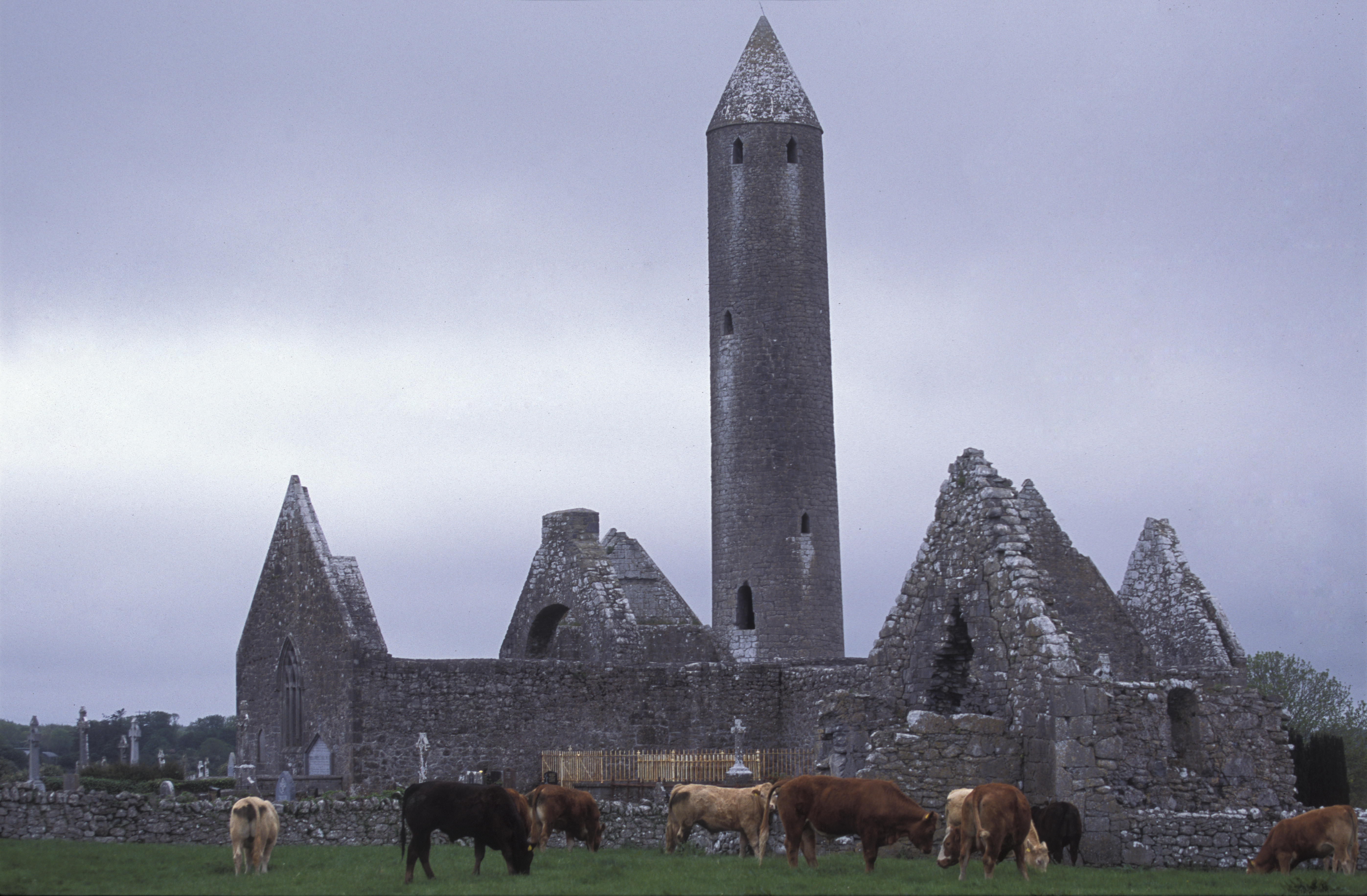 The ruins of the Kilmacduagh cathedral